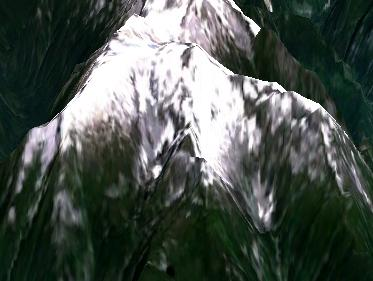 Mount Breakenridge